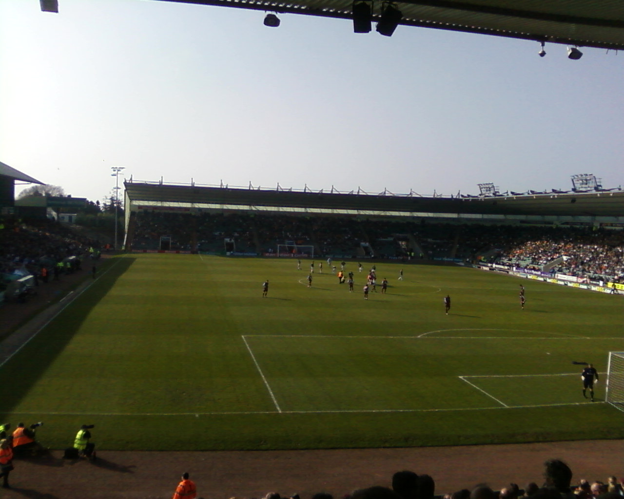 Home Park prior to the Championship match against Burnley on March 21, 2009